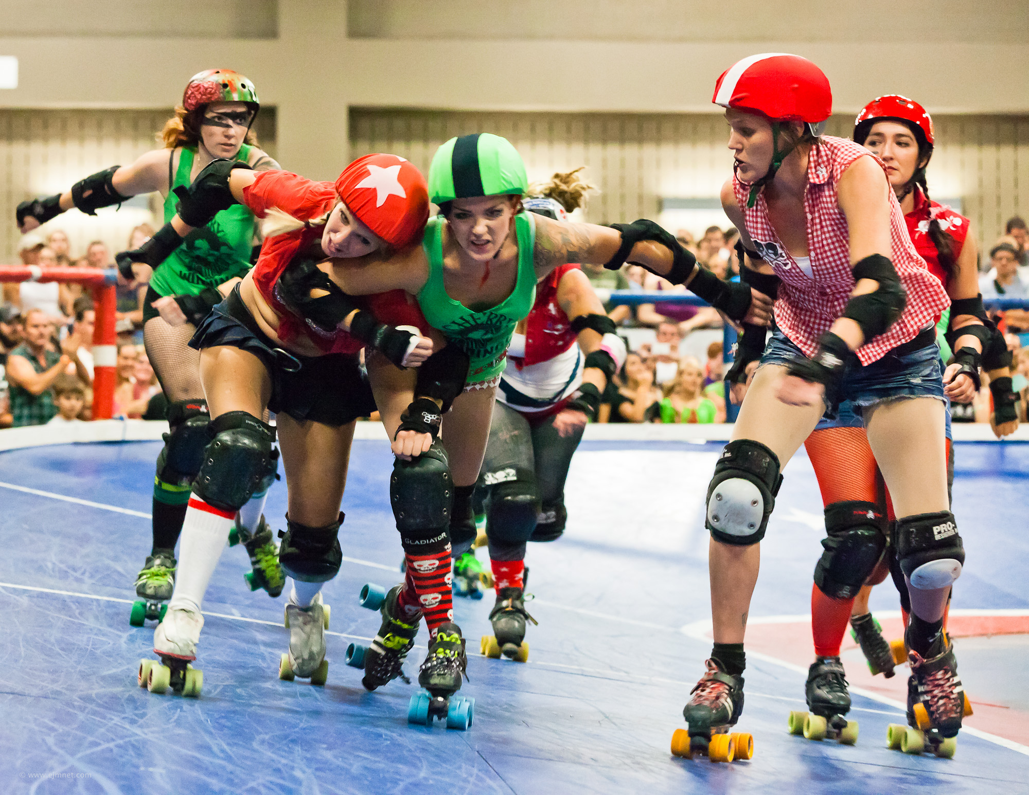 Roller Derby game between the Cherry Bombs (Green) vs Rhinestone Cowgirls (Red) on Aug 27, 2011, in Austin, Texas. The Rhinestone Cowgirls won this hard fought game in overtime.